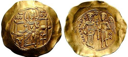 ISAAC II, Angelus. AV Hyperpyron (4.30 gm, 12h). Constantinople mint. The Virgin enthroned facing, holding the nimbate head of the infant Christ / Standing facing figures of Isaac, holding cruciform sceptre, and Archangel Michael; both holding a sword between.